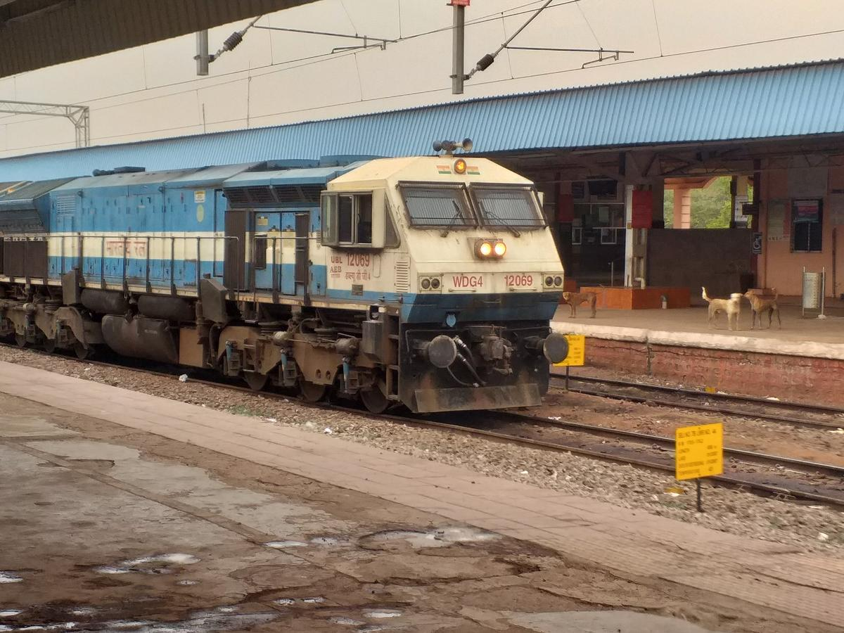 UBL WDG4 12069 at Toranagallu Jn as starter